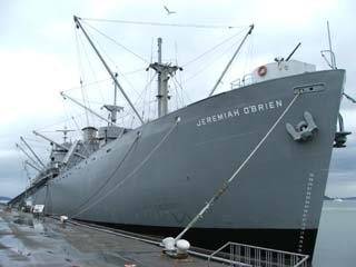 Personal photograph taken while docent on SS Jeremiah O'Brien